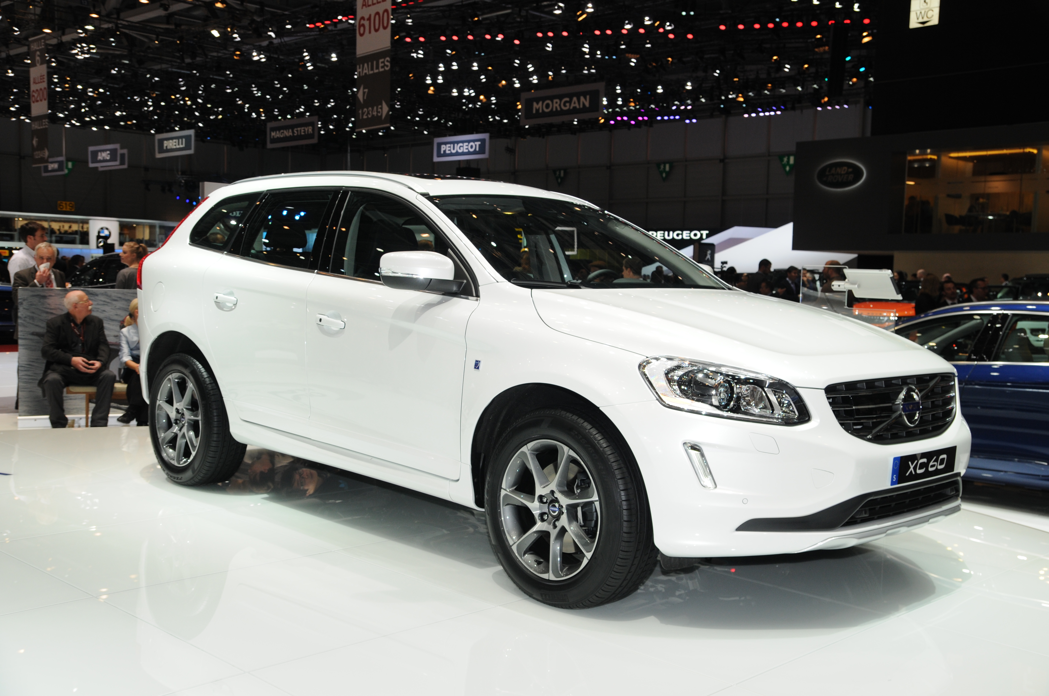 Geneva Motor Show 2014 (photo taken on the first press day)